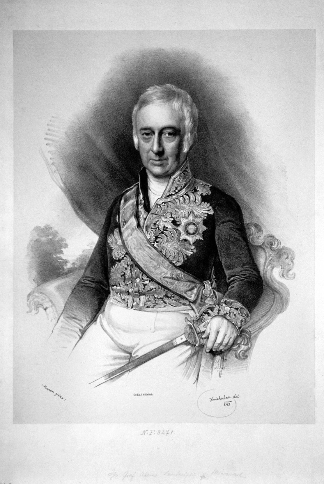 Ignaz Naria Graf von Attems-Heiligenkreuz (1774-1861), 1820-1852 Landeshauptmann der Steiermark, 1843 Ehrenbürger von Graz. Lithographie von Josef Kriehuber, 1843. Nach einem Gemälde von Moser